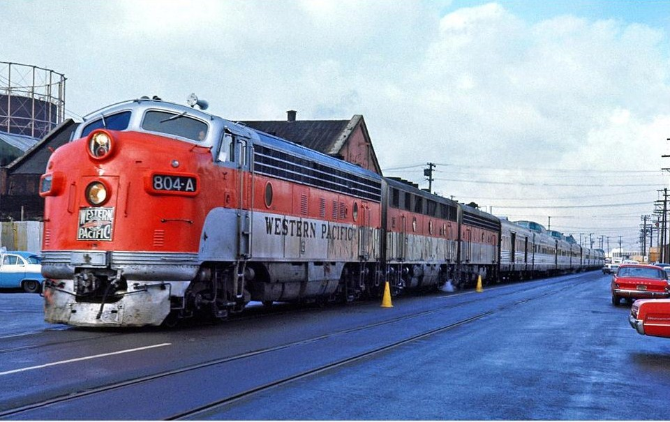 The famous California Zephyr started its eastbound journey to Chicago at Oakland, California.